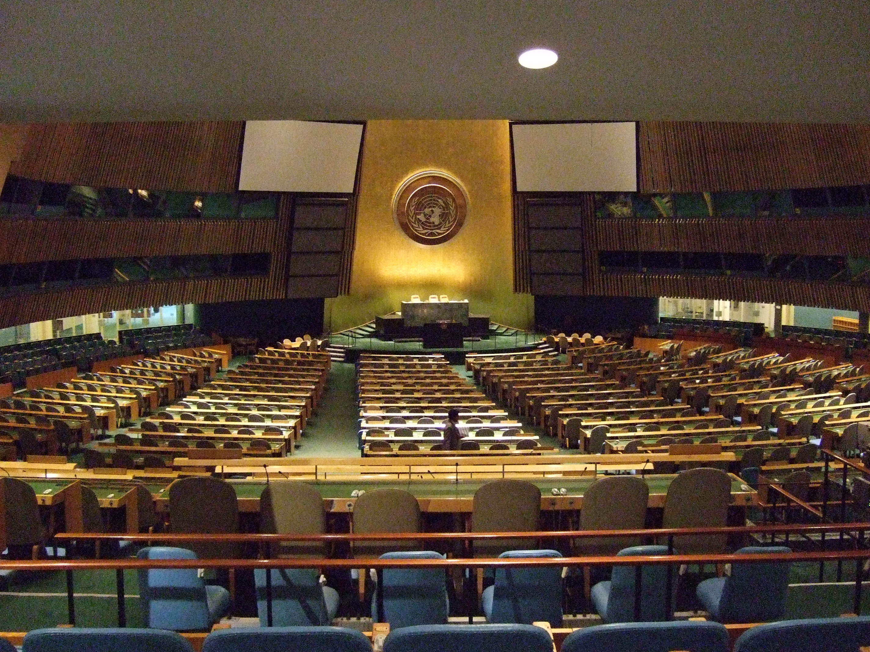 United Nations General Assembly hall, New York, USA